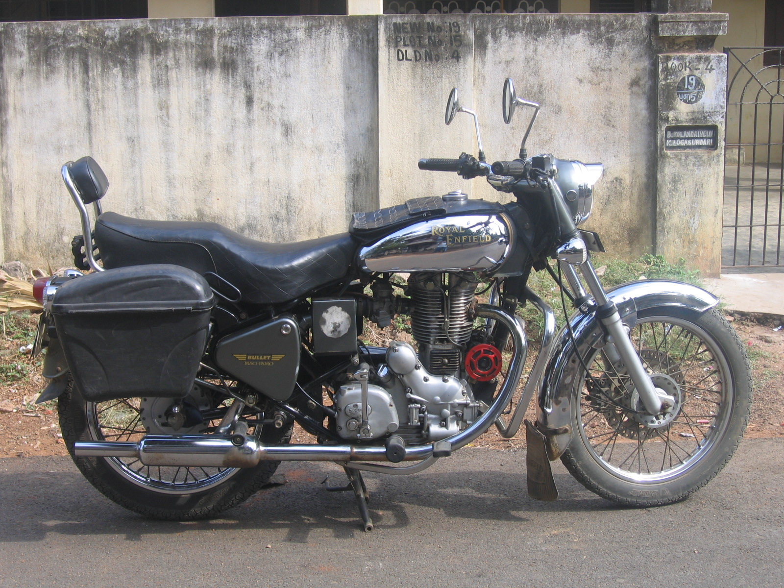 Indian-built Royal Enfield Bullet